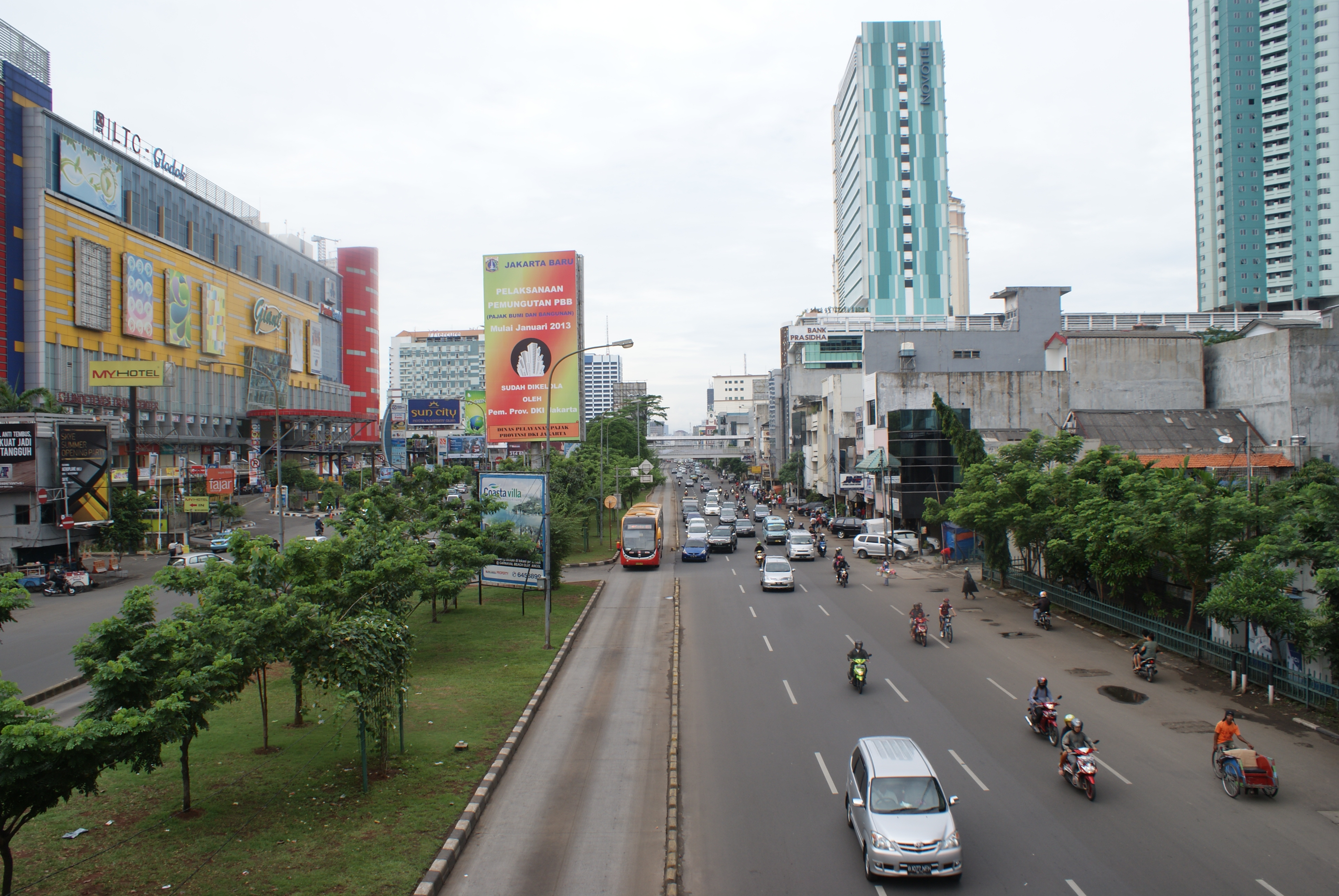 Ruas Jalan Gajah Mada - Jalan Hayam Wuruk, Jakarta. Dulunya disebut kawasan Molenvliet.